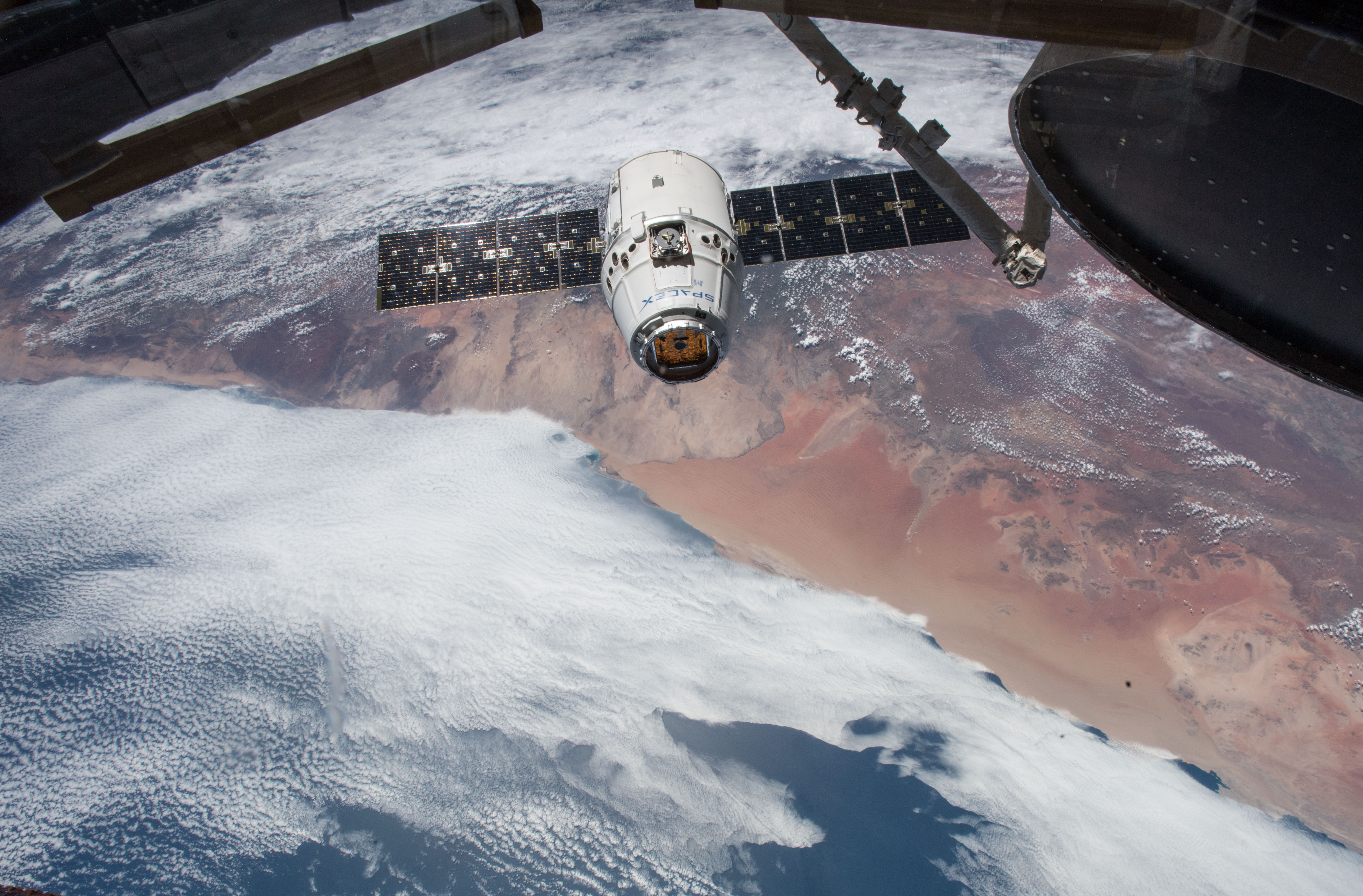 Welcome @SpaceX 14 – packed with science and hopefully a few goodies for us too! The SpaceX Dragon resupply ship approaches the International Space Station before its capture as both spacecraft begin an orbital pass off the southern coast of Namibia then northwest across the continent of Africa.